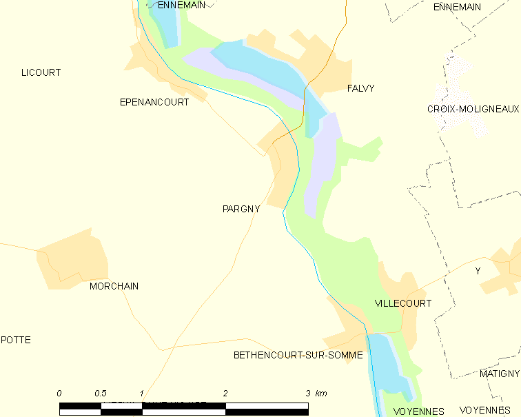 Map of French municipality Pargny